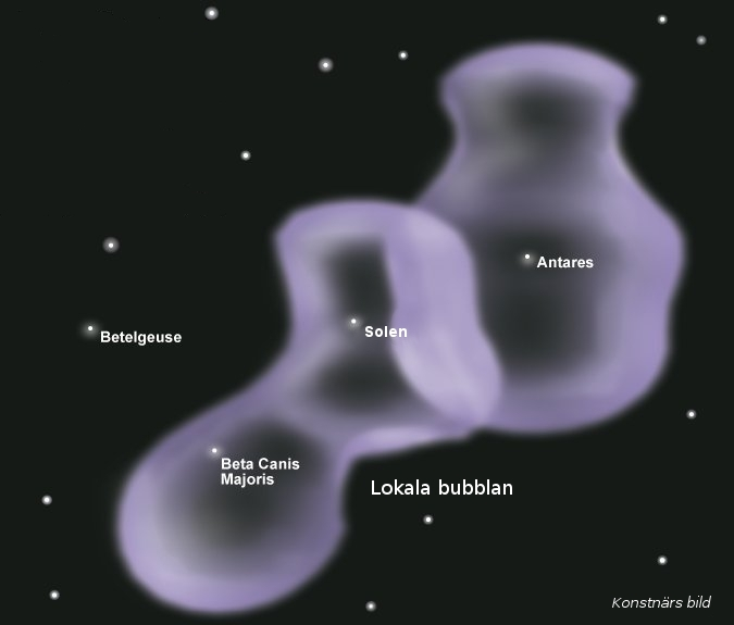 The Local Bubble. Derived from Image:Local bubble.jpg.